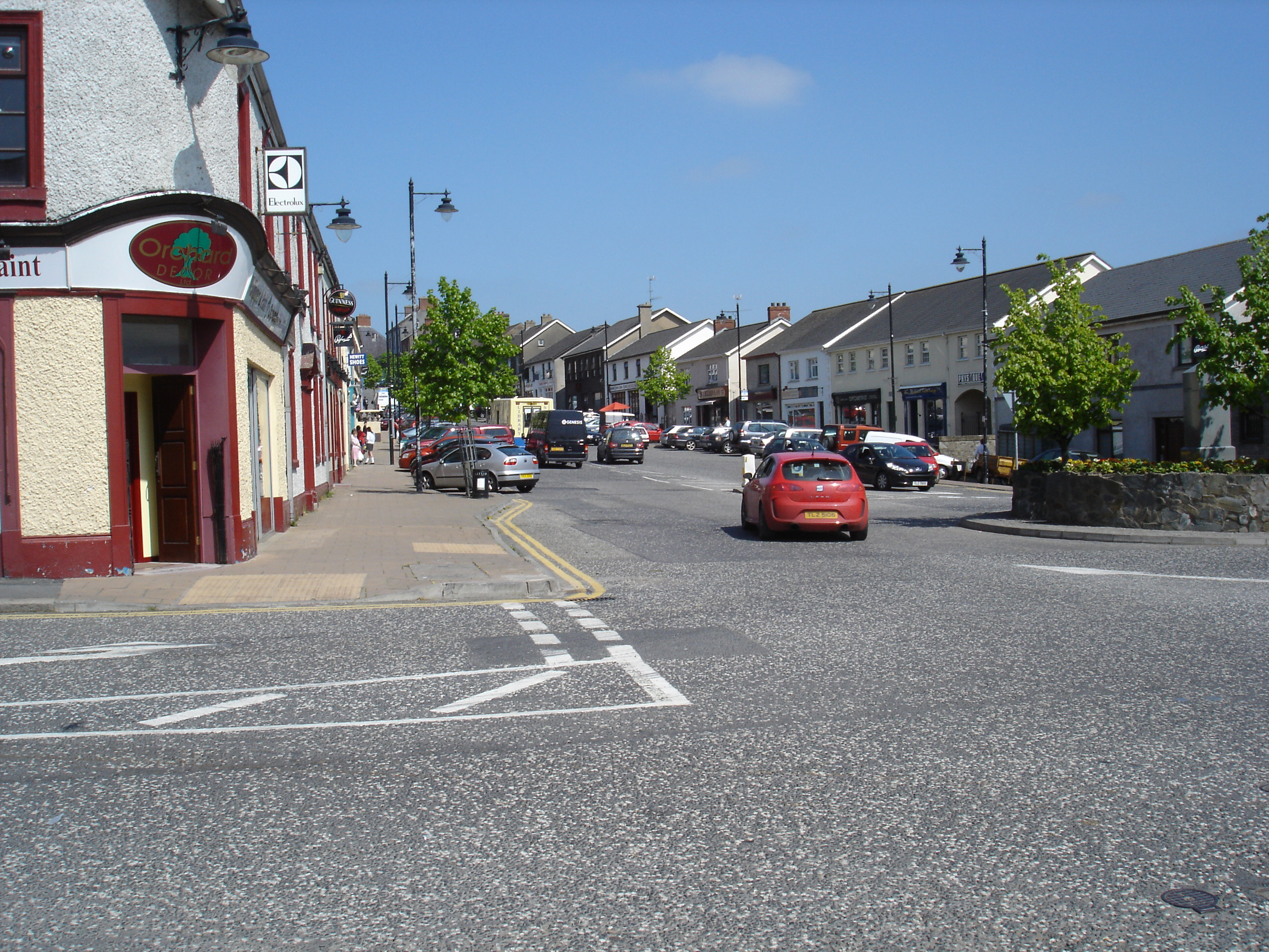 Central Markethill, County Armagh, Northern Ireland